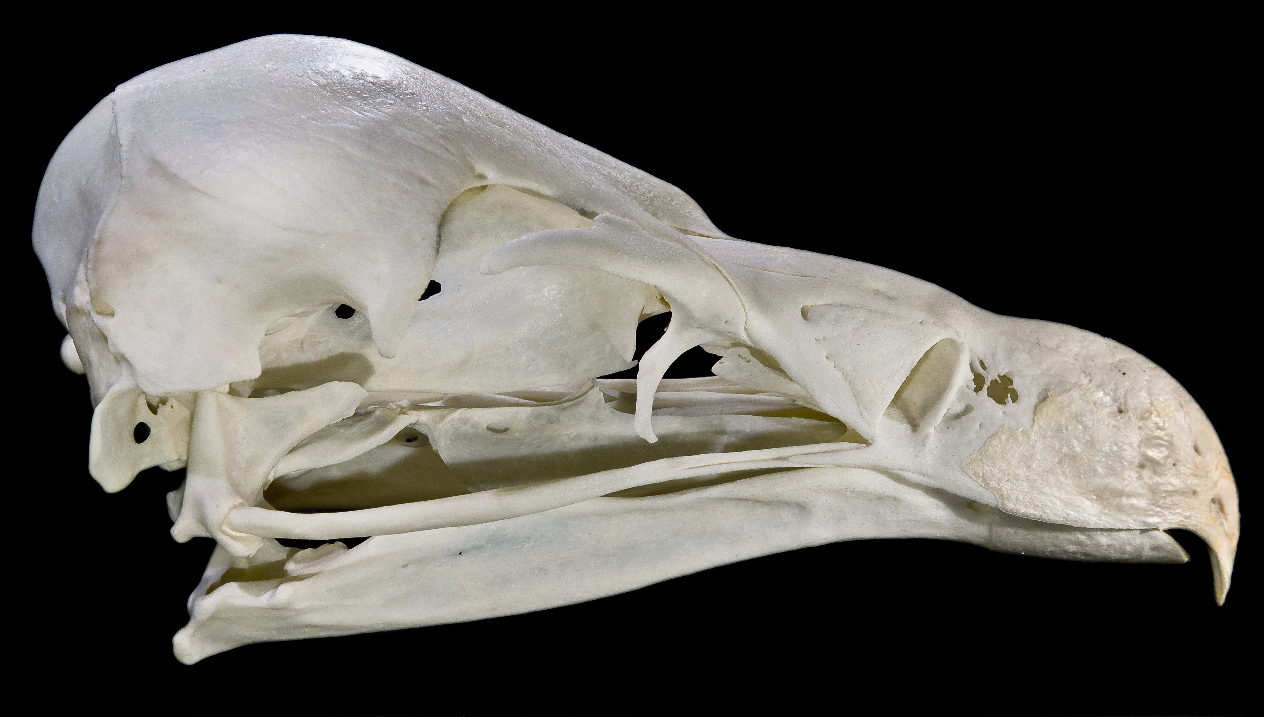 Skull of Rueppell's Griffon (Gyps ruepellii) 13.5cm